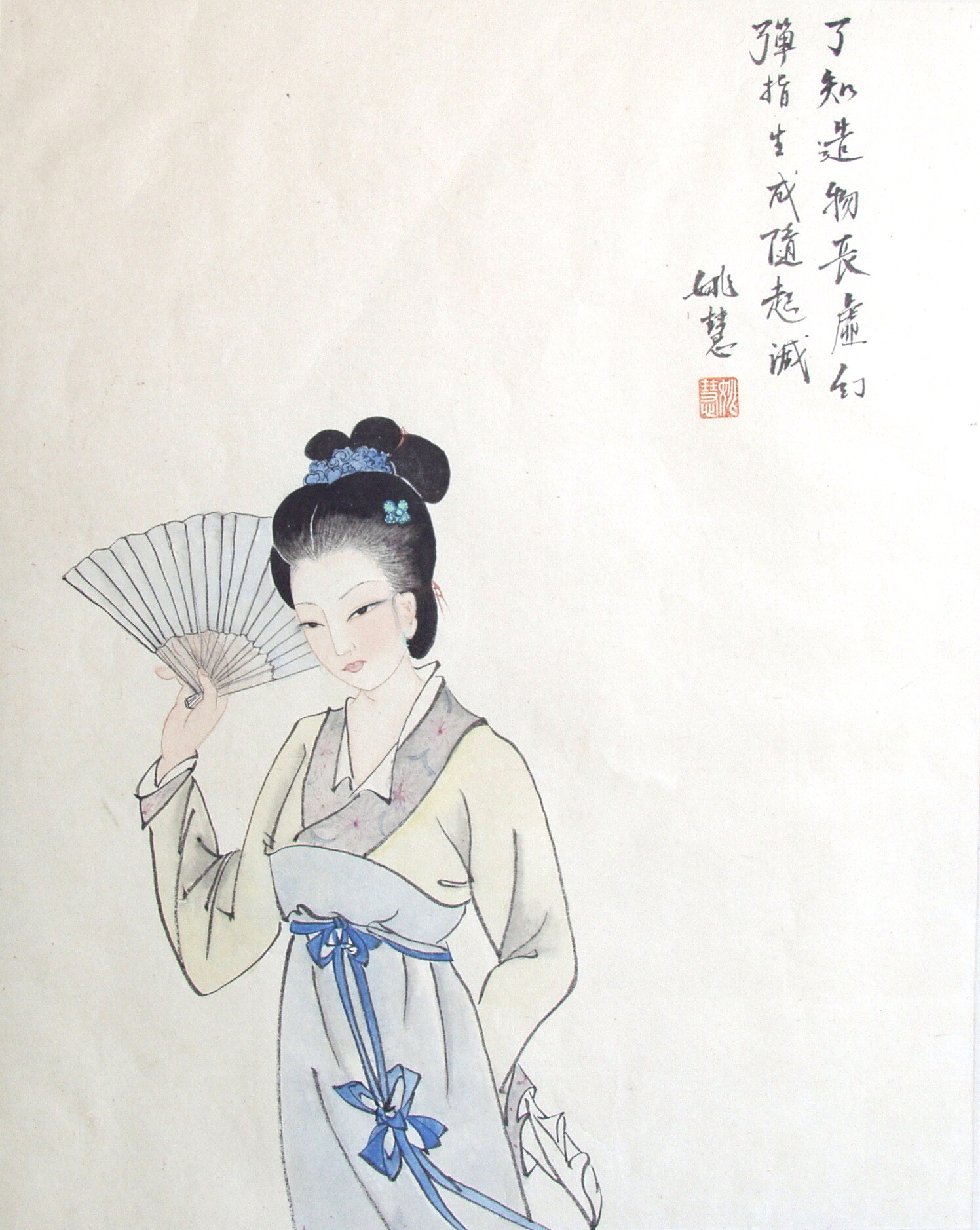 Chinesische Dame mit Fächer, Ohne Titel